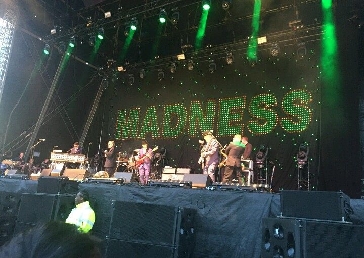 Madness performing at Wirral Live in 2017